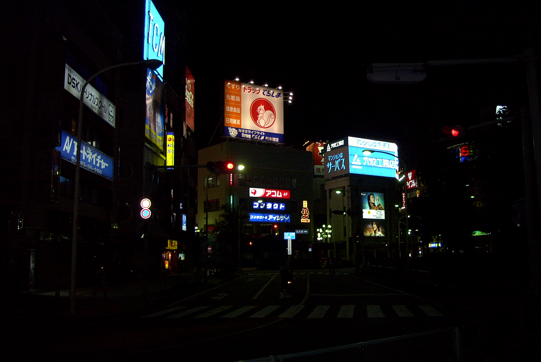 Matsumoto at night, near the train station. Photo taken by me in July, 2006.